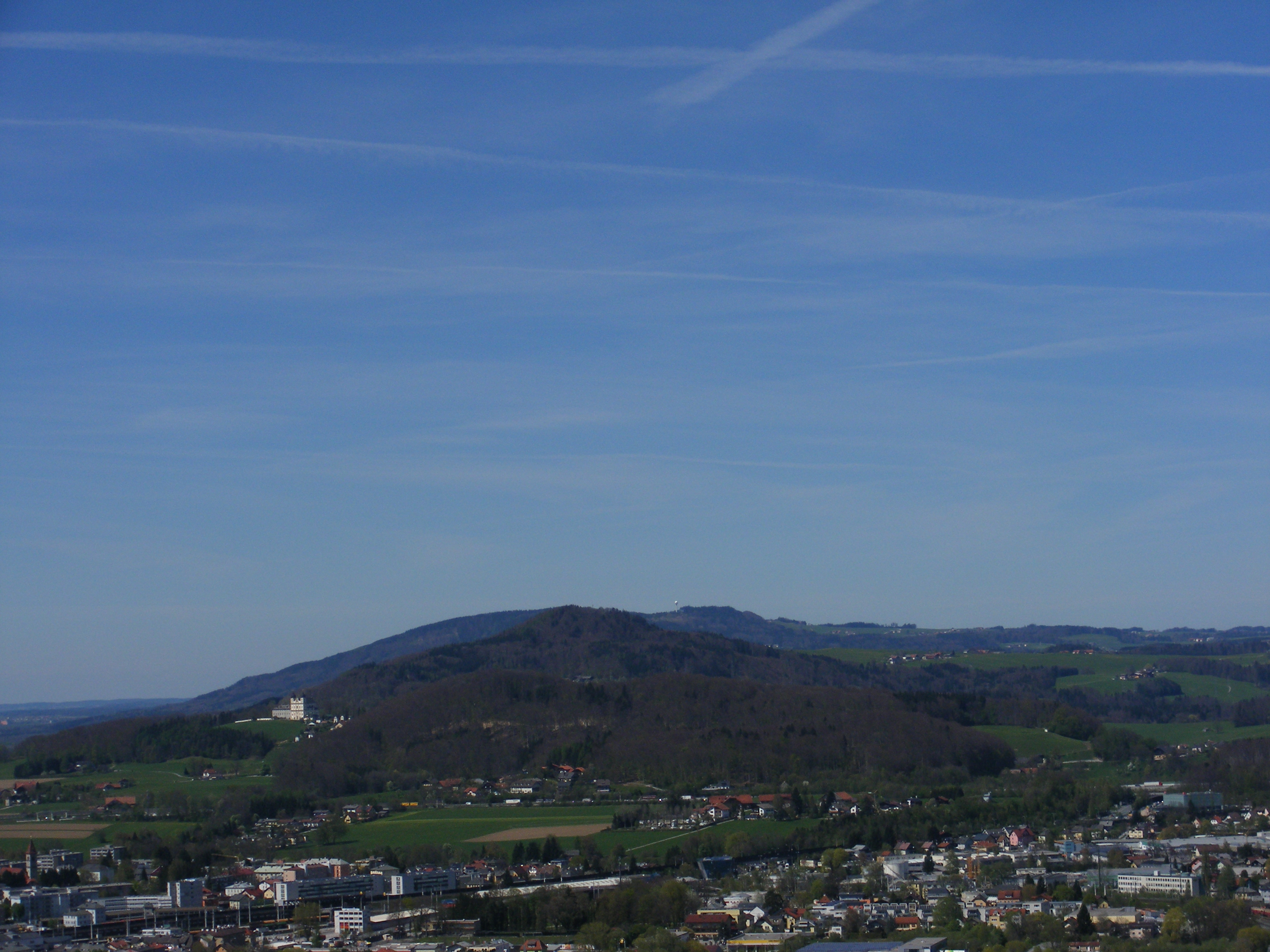 Mountains north of the city of Salzburg, Austria: Plainberg (front), Hochgitzen (center), and Haunsberg (back); seen from Kapuzinerberg in the center of Salzburg city.